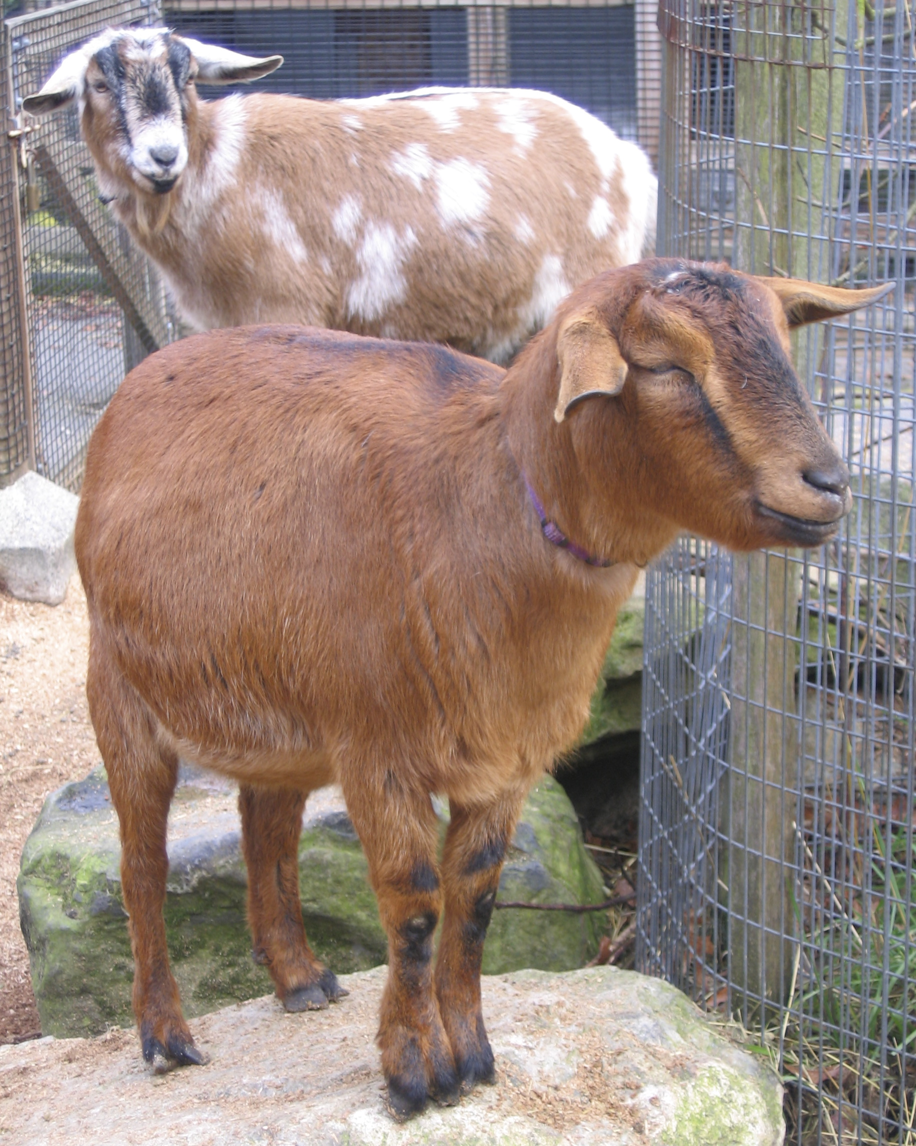 Kinder goats at Seattle's Woodland Park Zoo